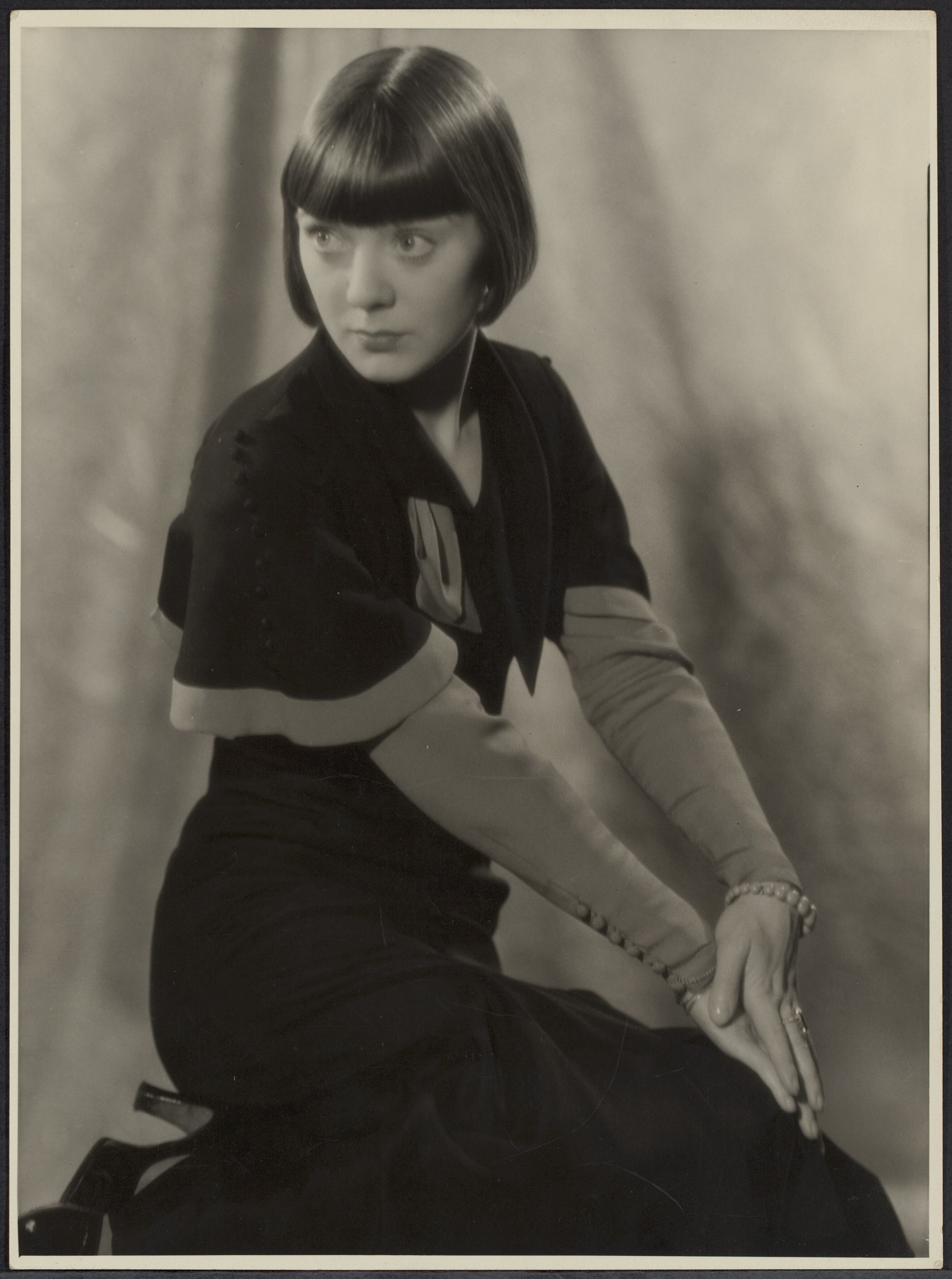 Truus van Aalten (Dutch film actress, 1910-1999) seated. 24 x 18 cm.